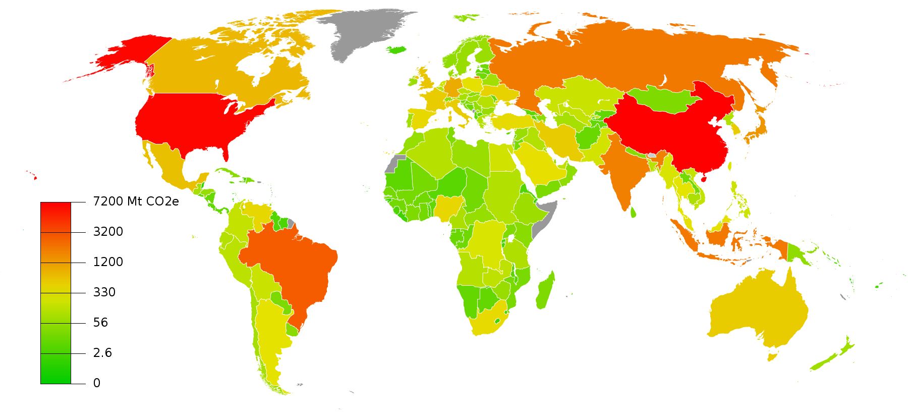 GHG emission by country in millions of metric tons of Carbon dioxide Equivalent. Data is from the CAIT 8.0 dataset. CO2 equivalent emissions from land use change and emissions of CO2,CH4,N2O,PFC,HFC, and SF6 are included. Bunker fuel (aka ships) is not.}